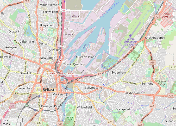 George Best Belfast City Airport in relation to Belfast city centre